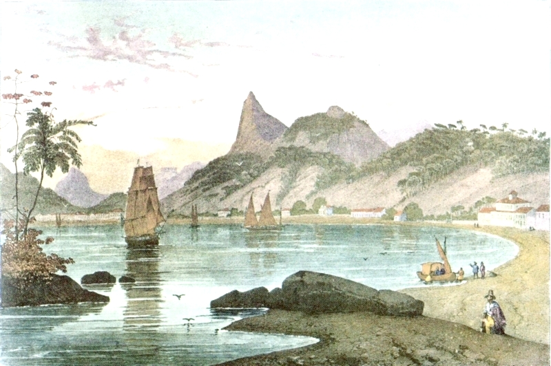 Botafogo harbor in Rio de Janeiro city (c.1820).